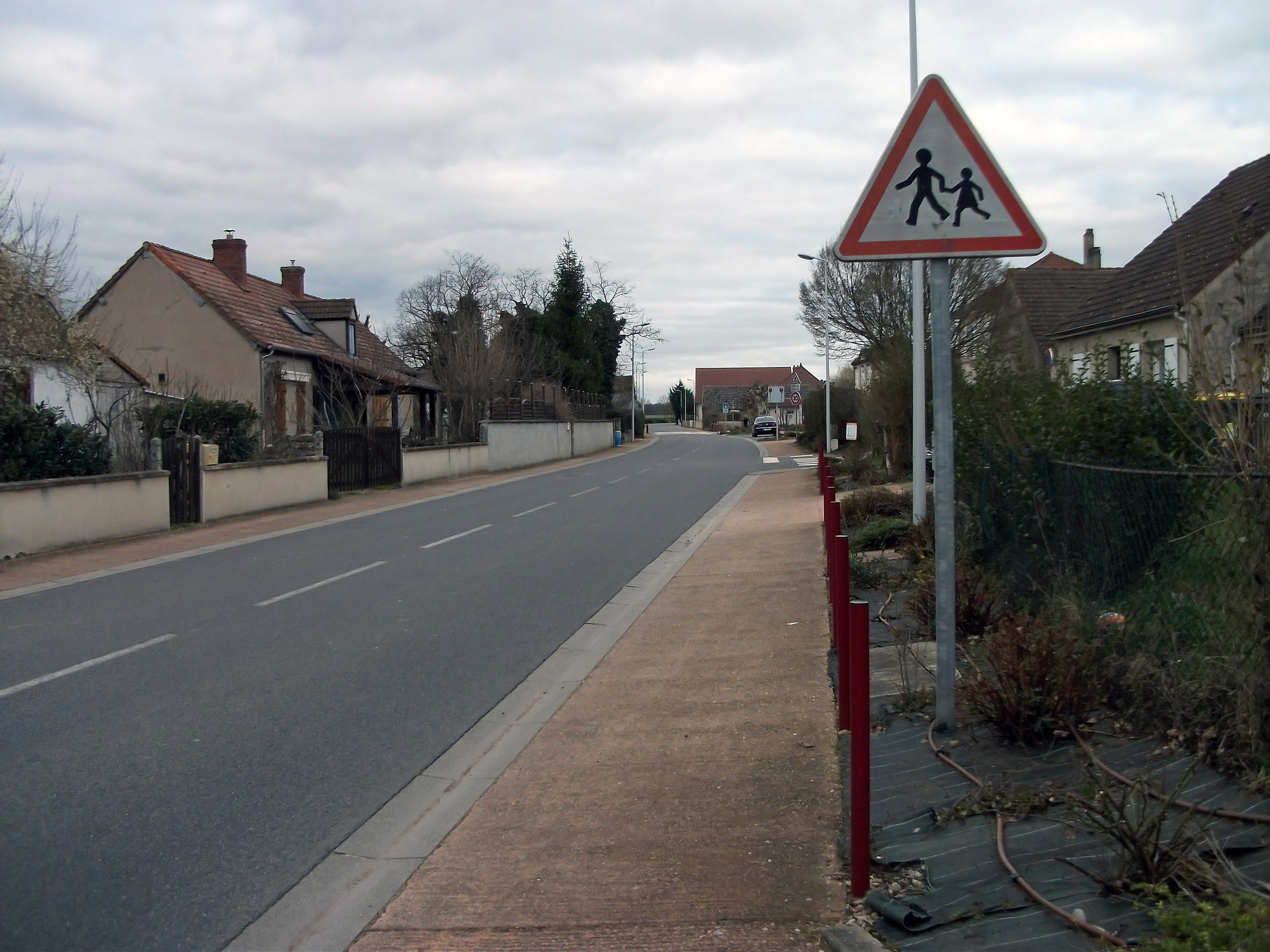 Departmental road 130 in Loriges towards Billy - Sign made in 1987 (near school) [10318]